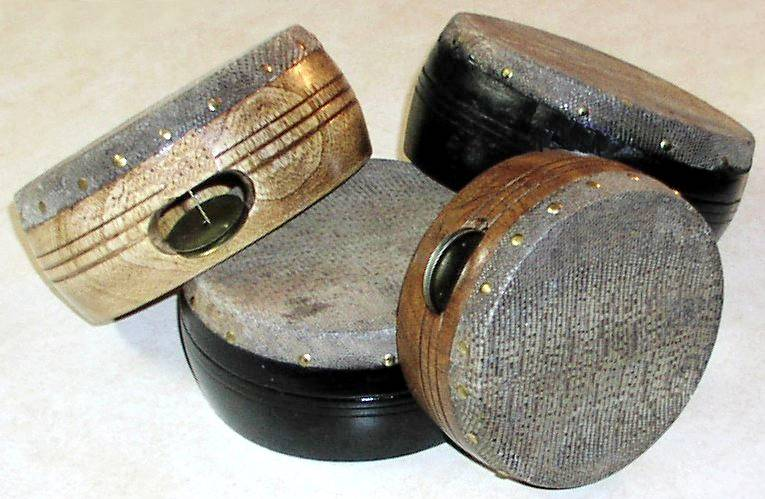 Obtained from Uploaded with permission from owner under a GFDL license.